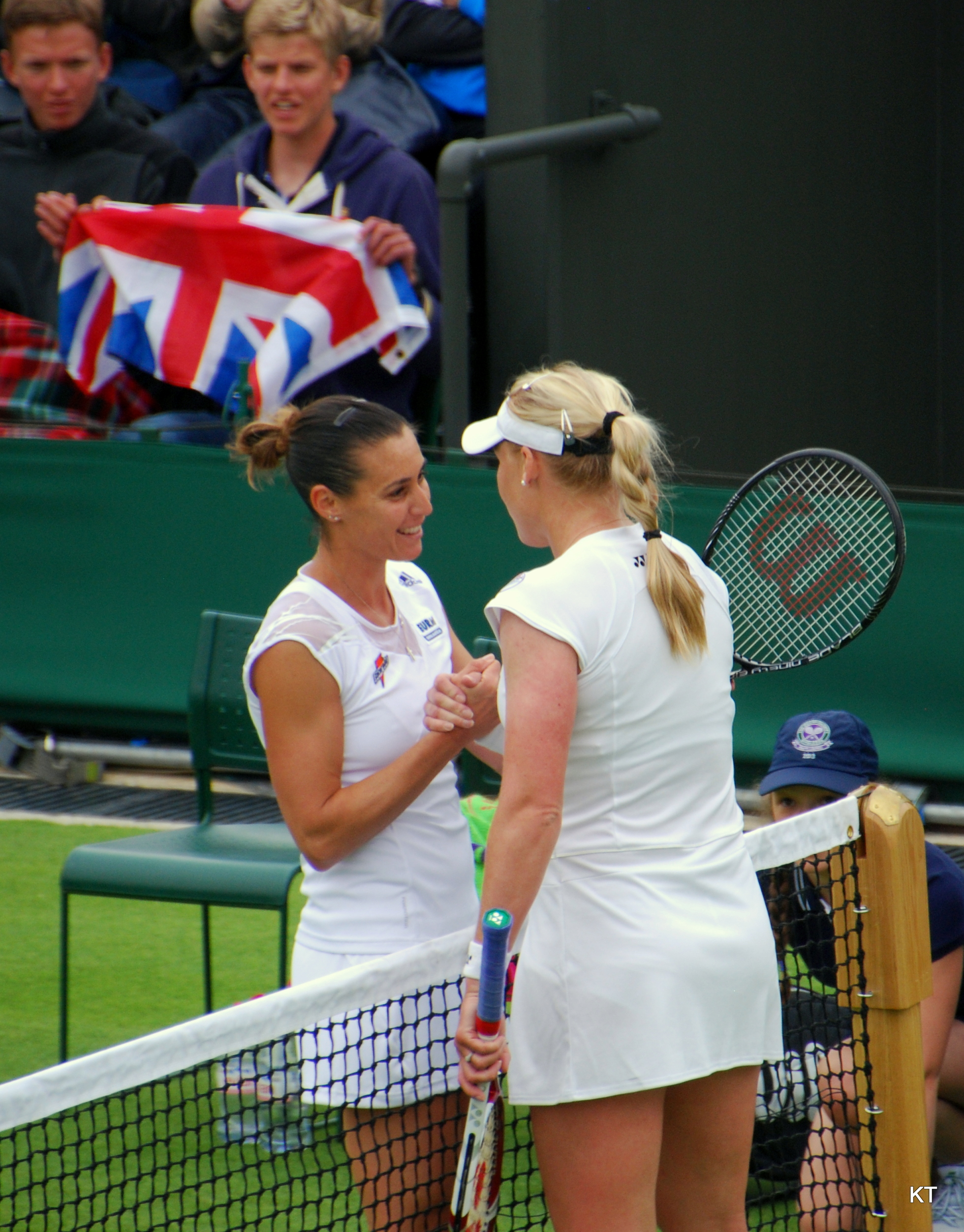 Court 3 on Day 1 of Wimbledon 2013. British player Elena Baltacha took on Italy's Flavia Pennetta. Both players had had long injury breaks involving surgery, though Elena's return was more recent. Flavia won this match 6-4, 6-1, and went on to finish 2013 ranked 31. Elena Baltacha announced her retirement from the tour in November 2013.